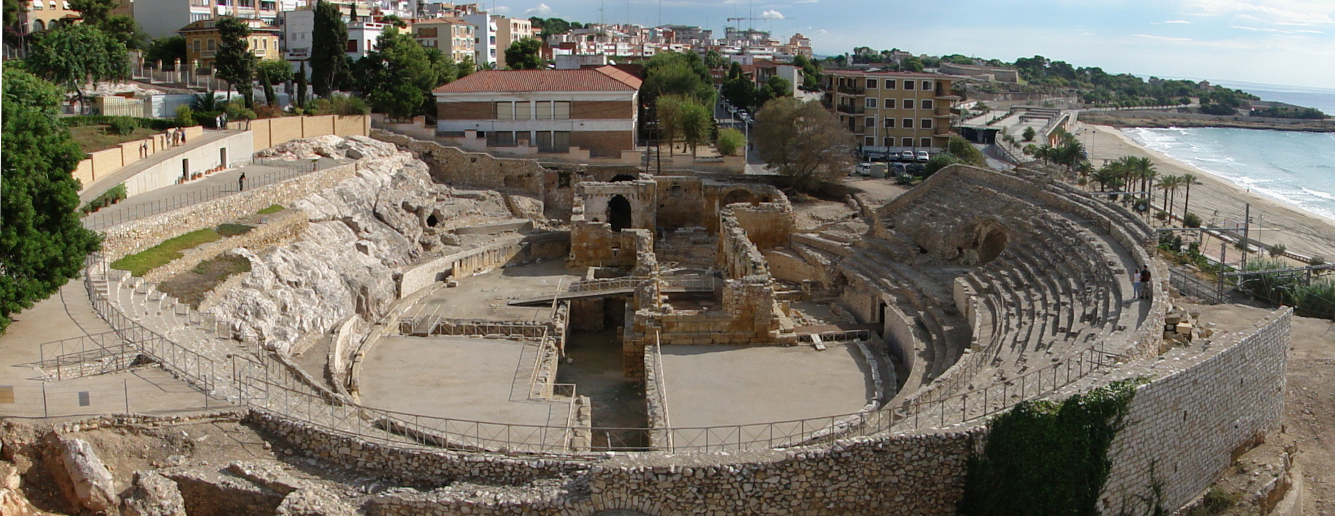 Roman amphitheatre of Tarragona, Catalonia, Spain